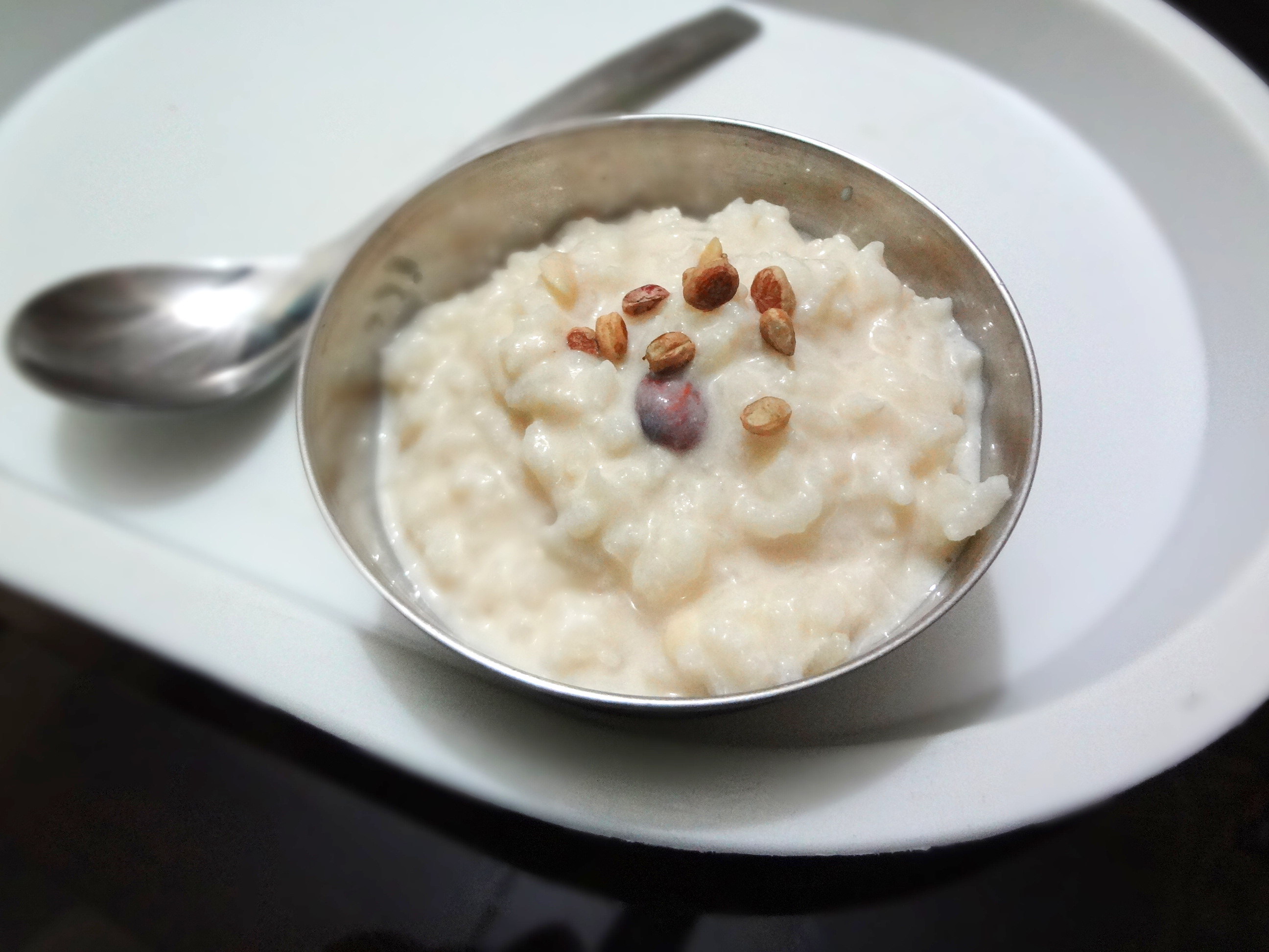 kheer made by my mother.